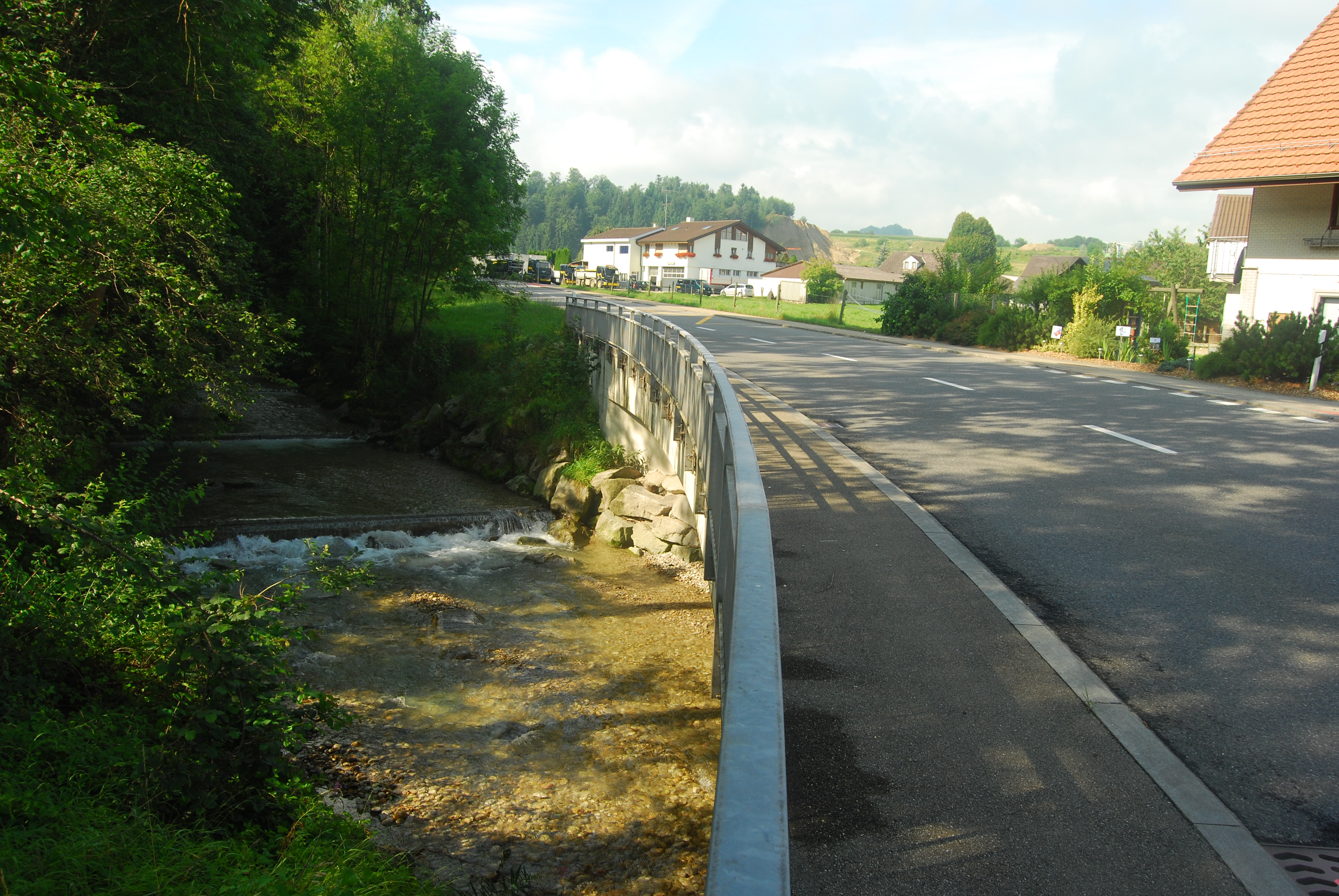 River Luthern at Ruefswil (municipality of Ufhusen), canton of Luzern, Switzerland